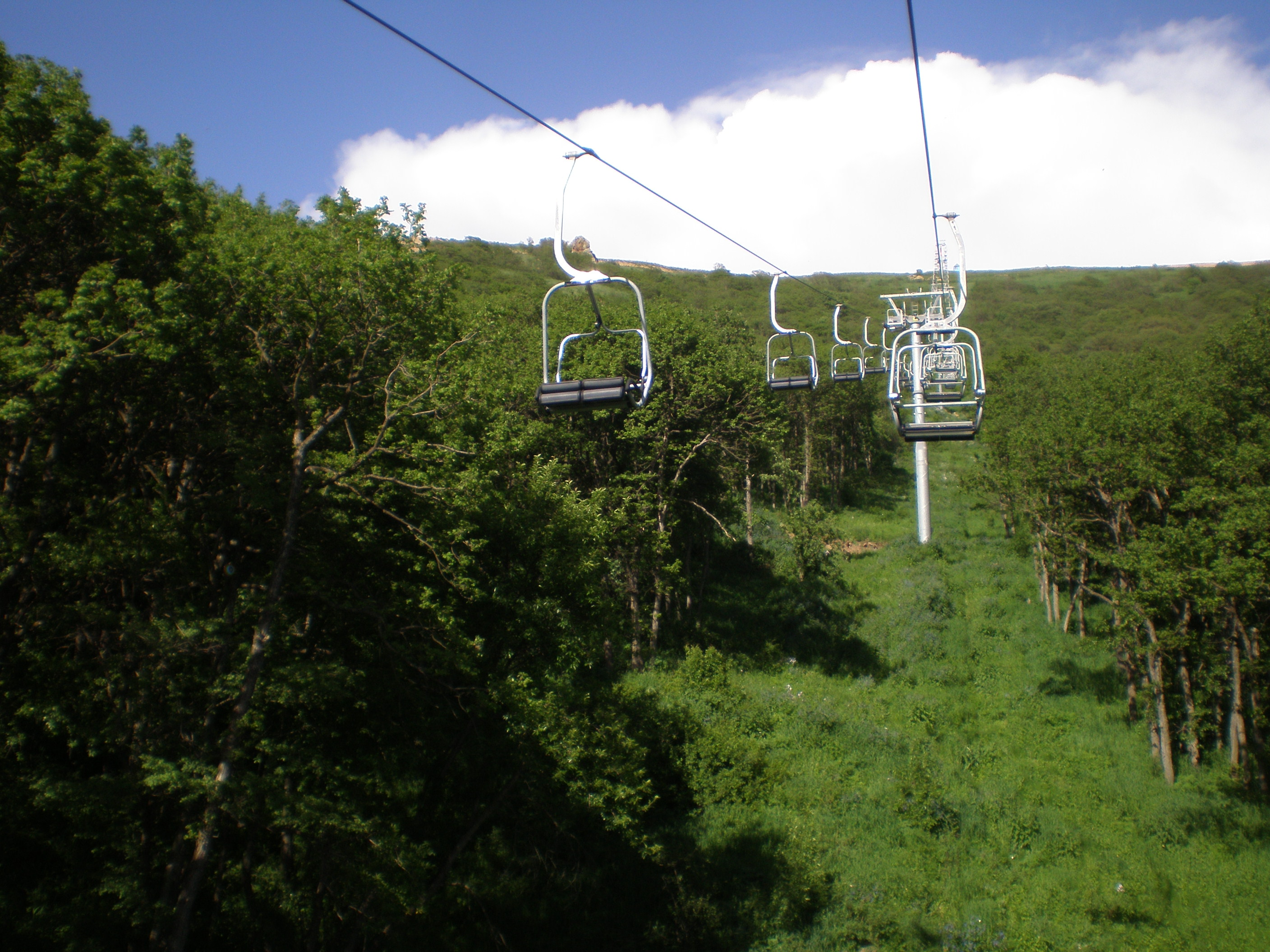 The ropeway in Djermuk (Jermuk).